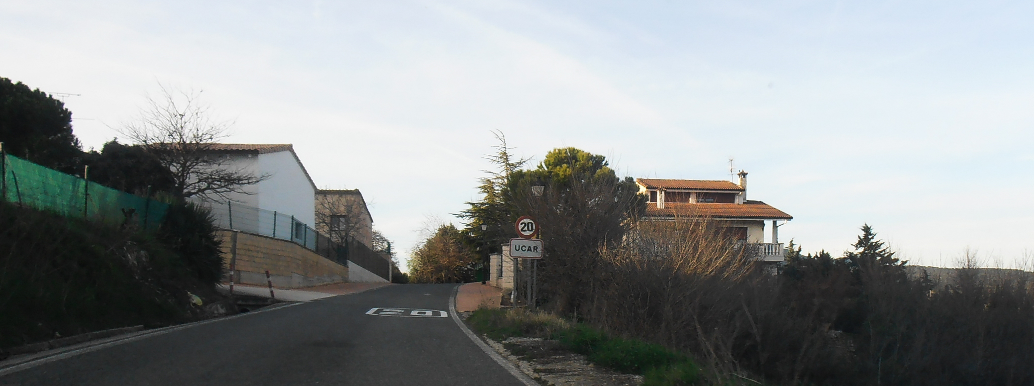 Úcar, Navarre, Spain